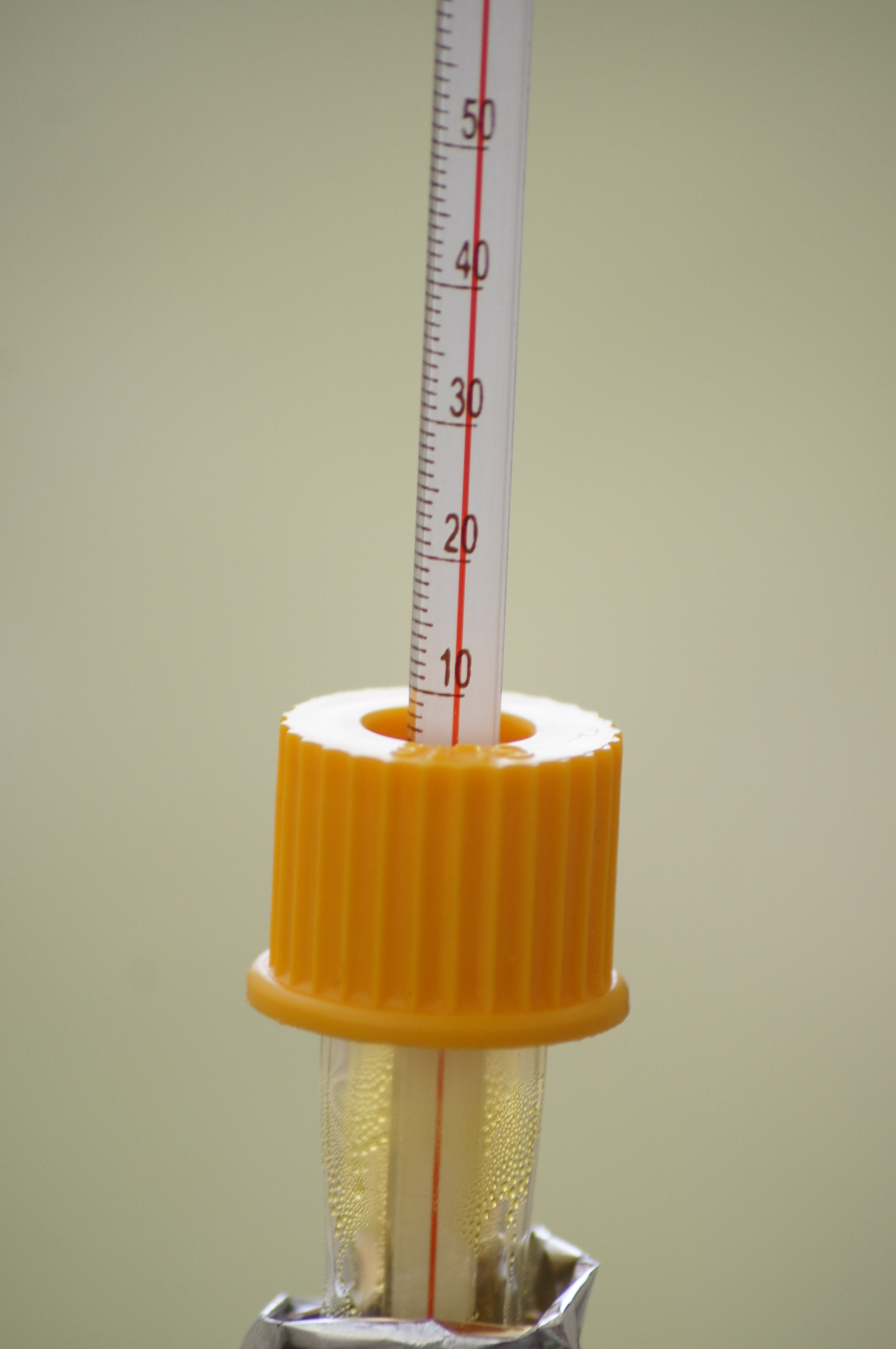 Laboratory thermometer in 14/23 adapter